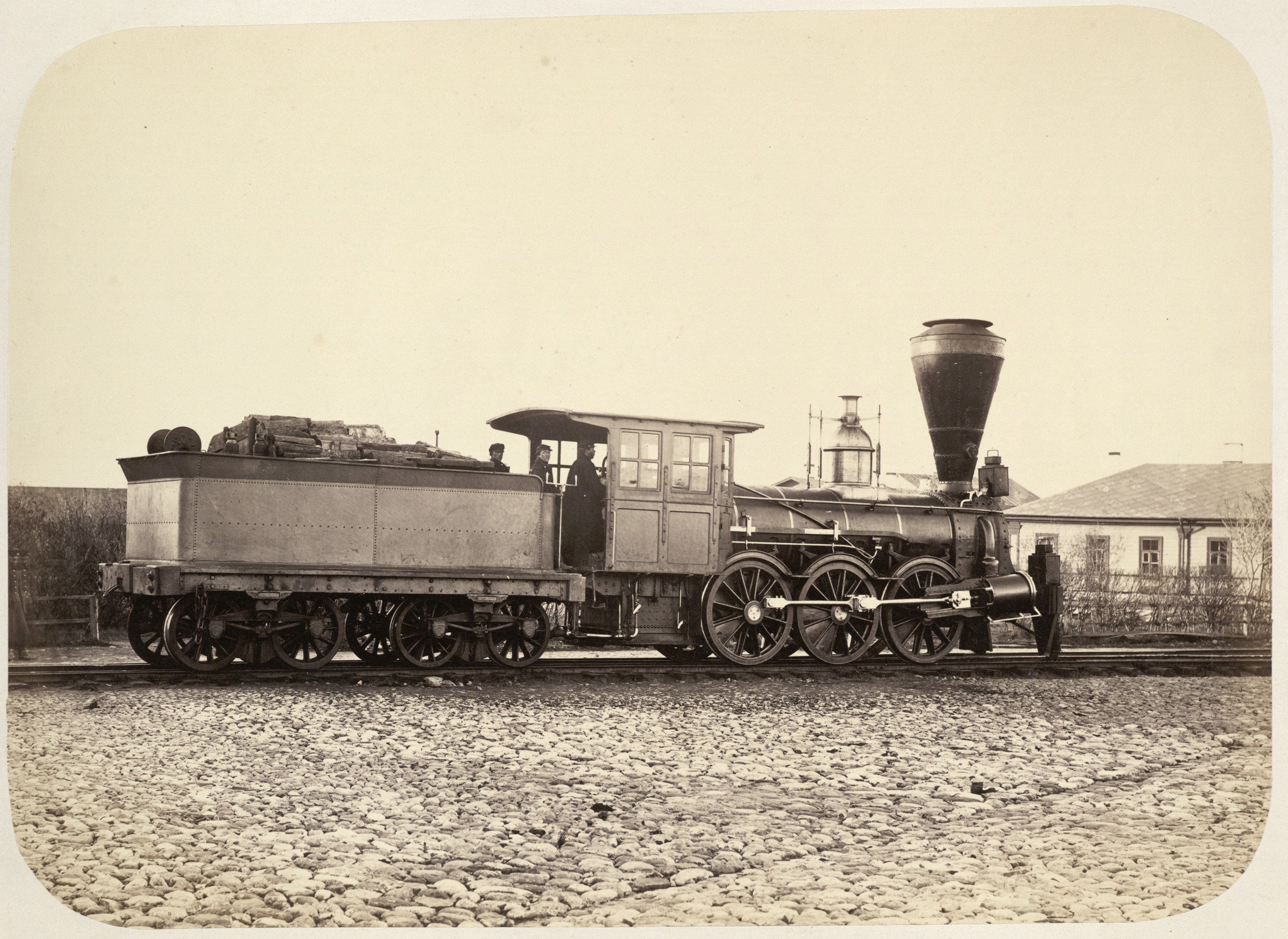 Title: Wood burning locomotive on Nikolaev Railway Creator: Goffert, I. [attrib.] Date: ca. 1863-1864 Part Of: Views of the Nikolaev Railway Physical Description: 1 photographic print: albumen; 22.5 x 31.7 cm. on 33.5 x 43.5 cm. mount File: ag1982_0226x_02_opt.jpg Rights: Please cite Southern Methodist University, Central University Libraries, DeGolyer Library when using this image file. A high-quality version of this file may be obtained for a fee by contacting . For more information, see: View Europe, India, and Asia: Photographs, Manuscripts, and Imprints